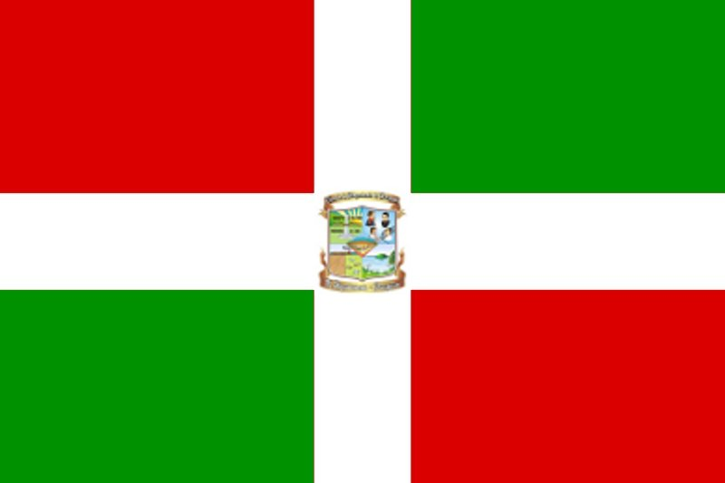 paraguari department flag